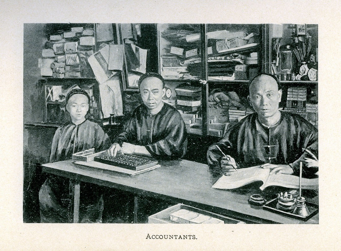 Chinese accountants at work in their store